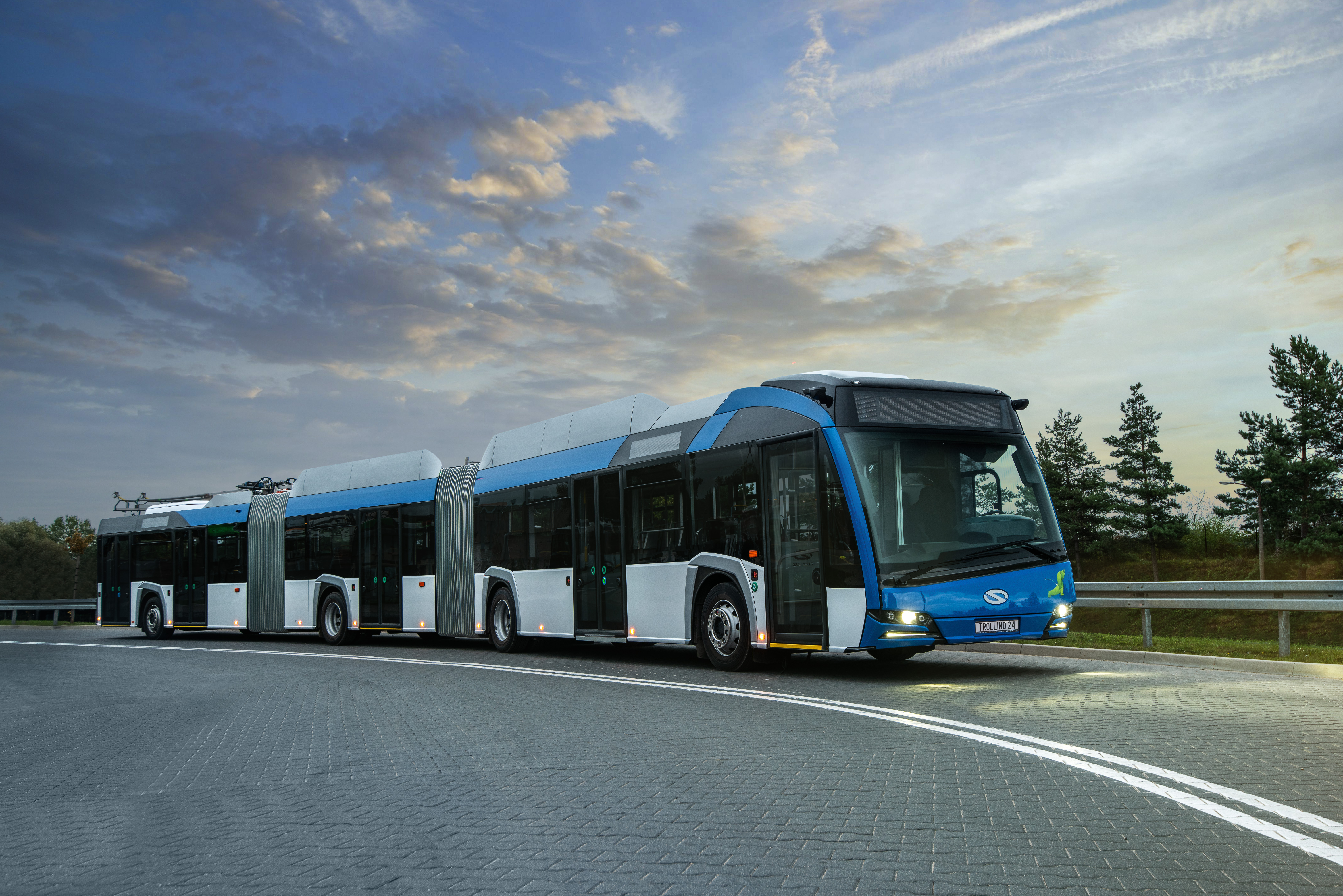 Solaris Trollino 24 MetroStyle - prototype built in 2019